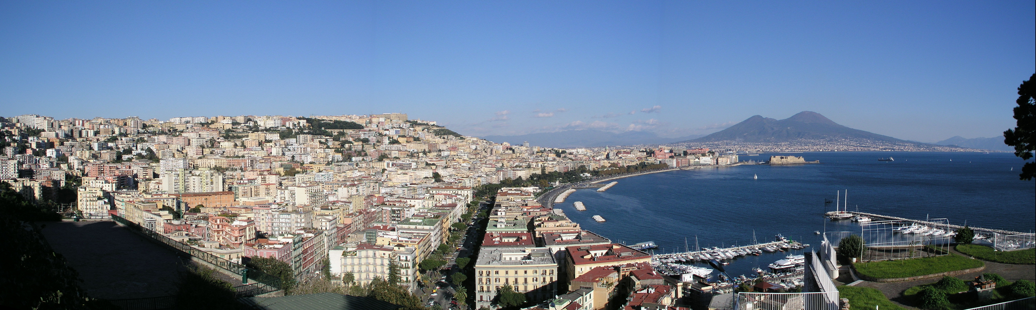 Naples, Italy, panorama.